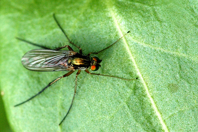 Picture taken in Commanster, Belgian High Ardennes . Species: Dolichopis discifer